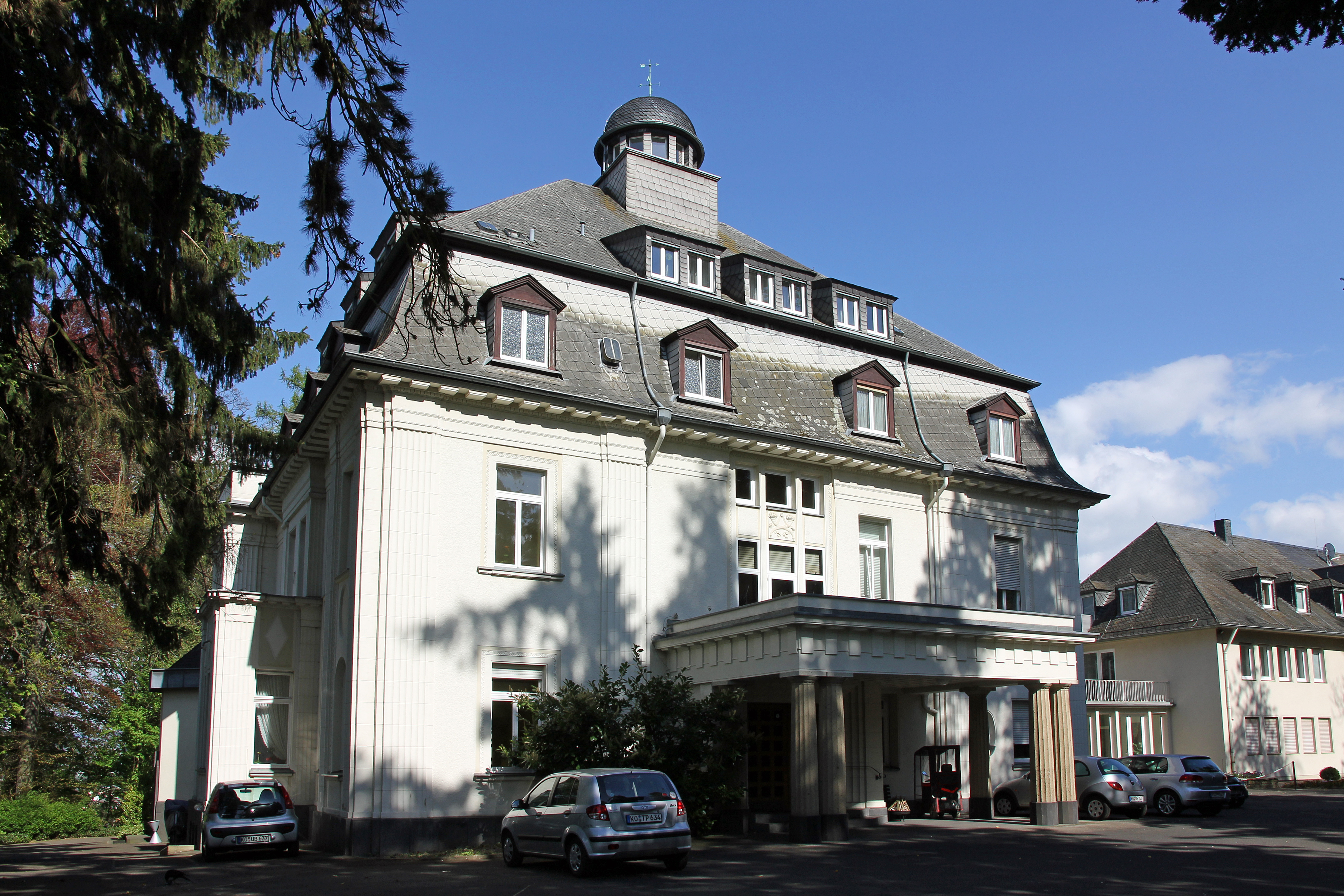 Weidtman Castle in Koblenz